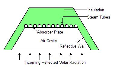 Diagram of relevant components of a typical CLFR